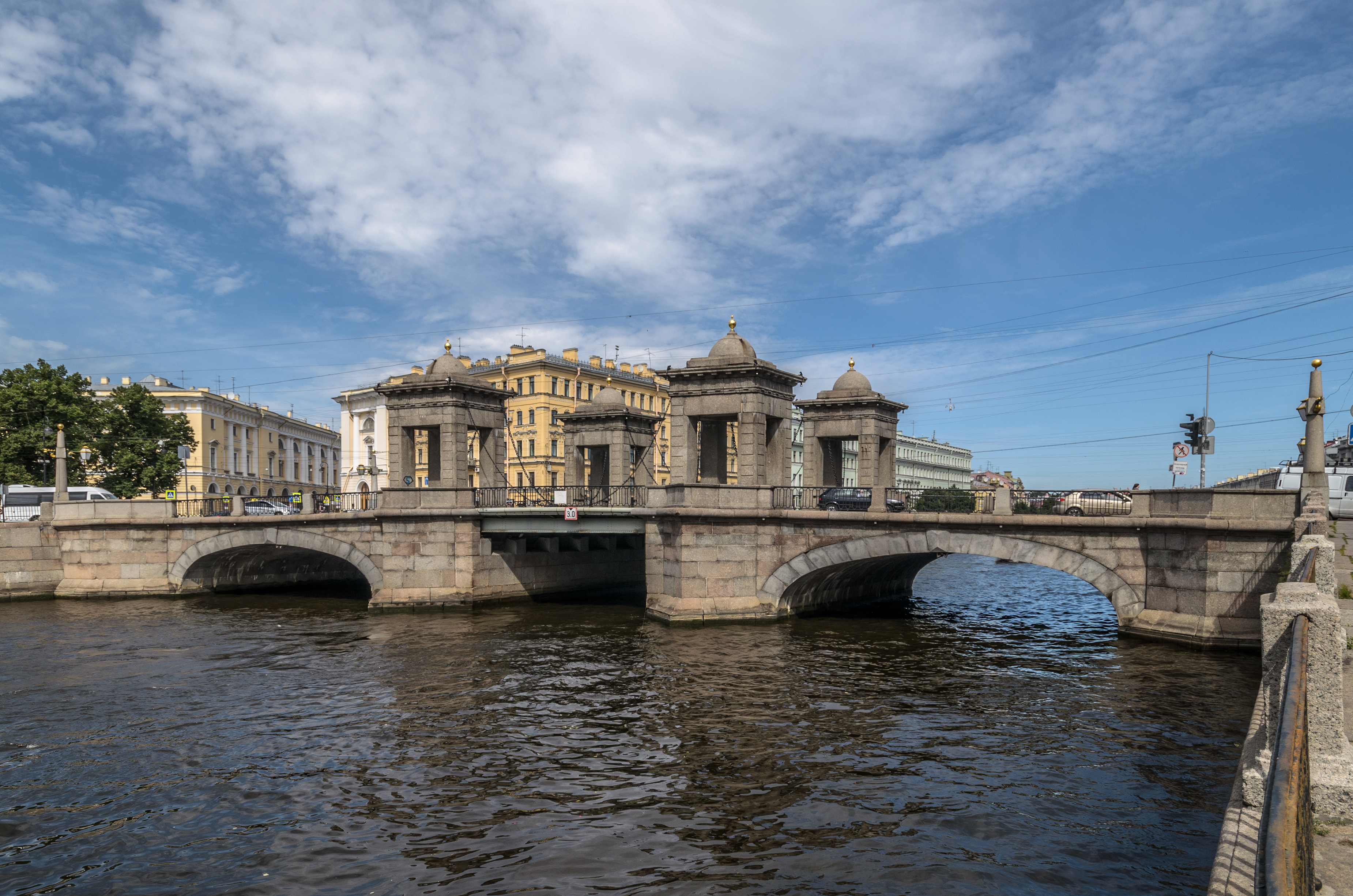 Lomonosova Bridge in Saint Petersburg